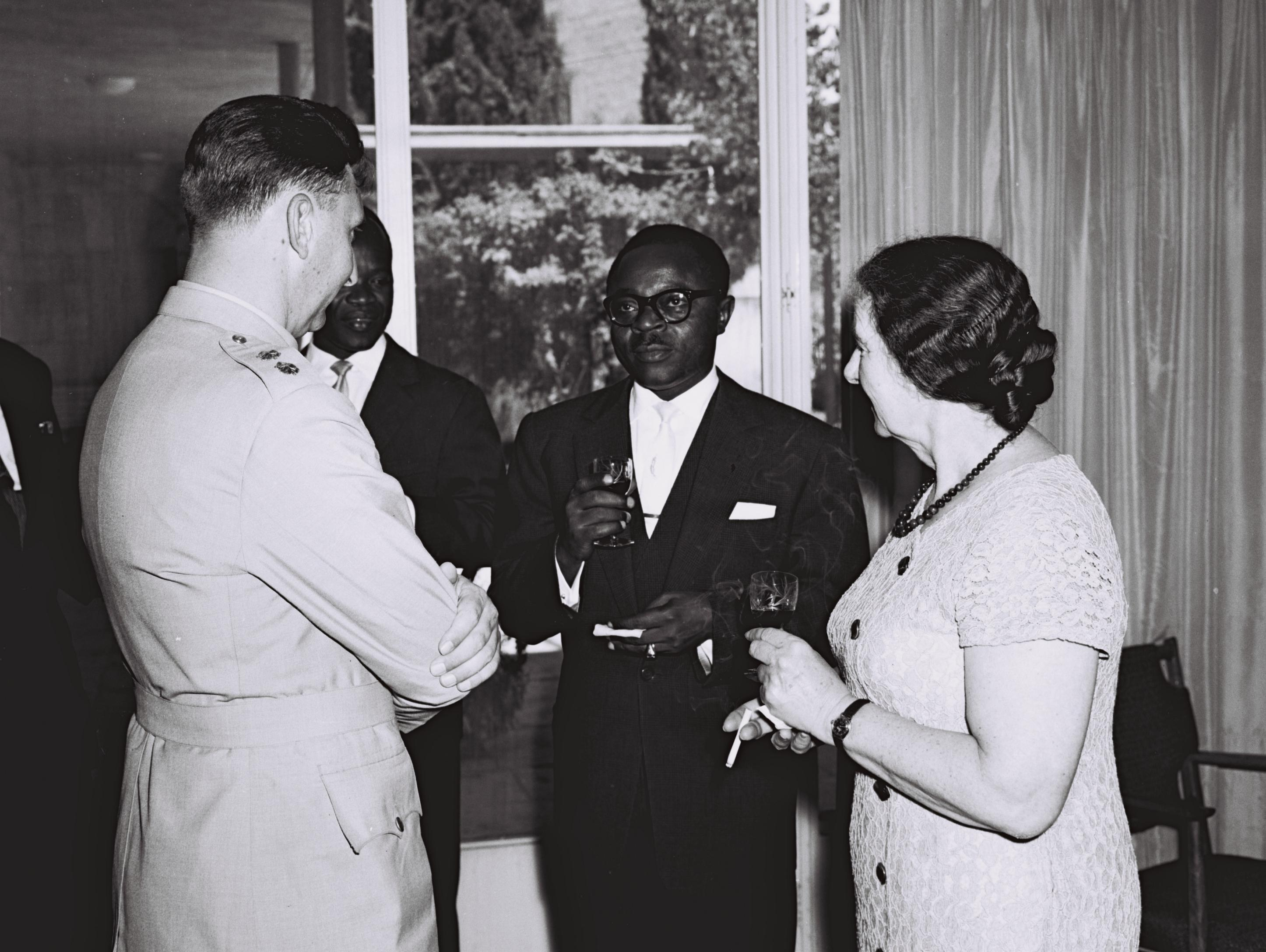 PRESIDENT YAMEOGO OF UPPER VOLTA WITH GOLDA MEIR BEFORE LUNCHEON IN HIS HONOR